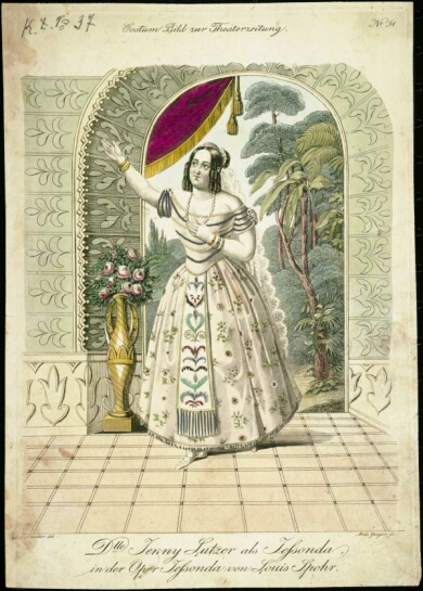 Stagepicture of Jenny Dingelstedt, né Lutzer, as Jessonda in Louis Spohr's opera "Jessonda" (1823)